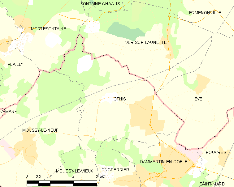 Map of French municipality Othis